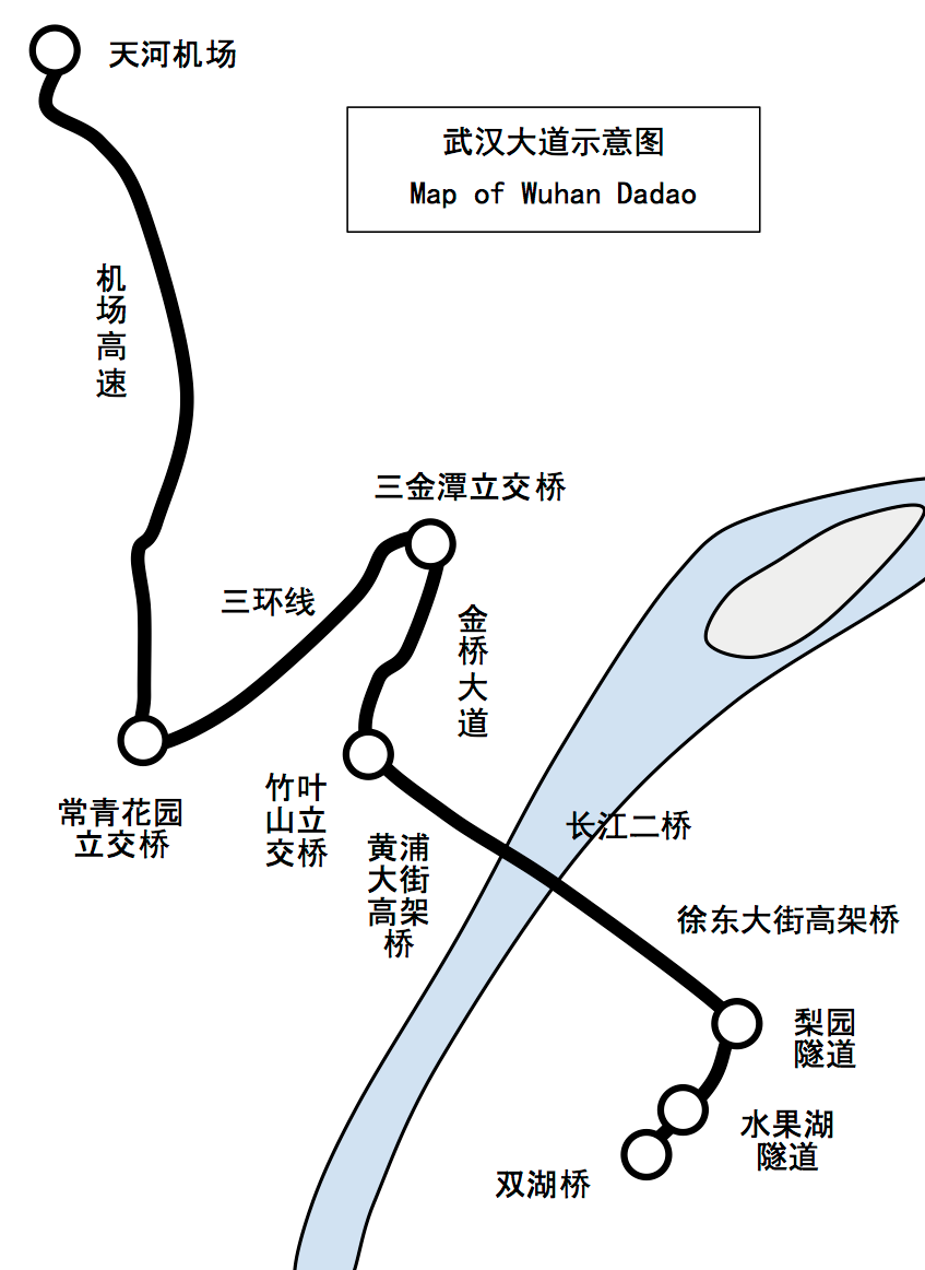 A map of Wuhan Dadao, a major thoroughfare of wuhan